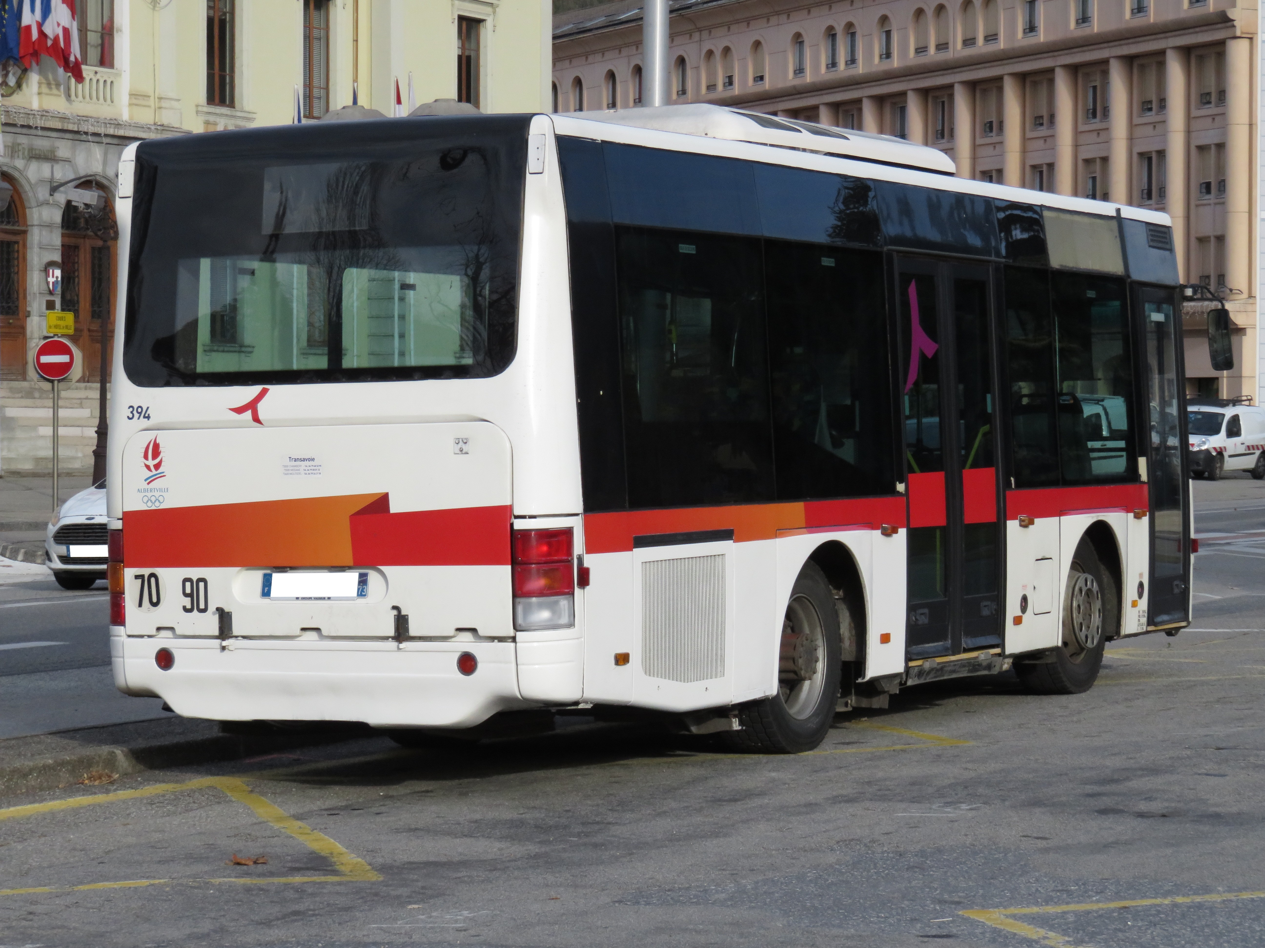 A Neoplan N4407 (n°394 of Transavoie) at the call Hôtel de ville (Albertville, France) on November 23, 2017.